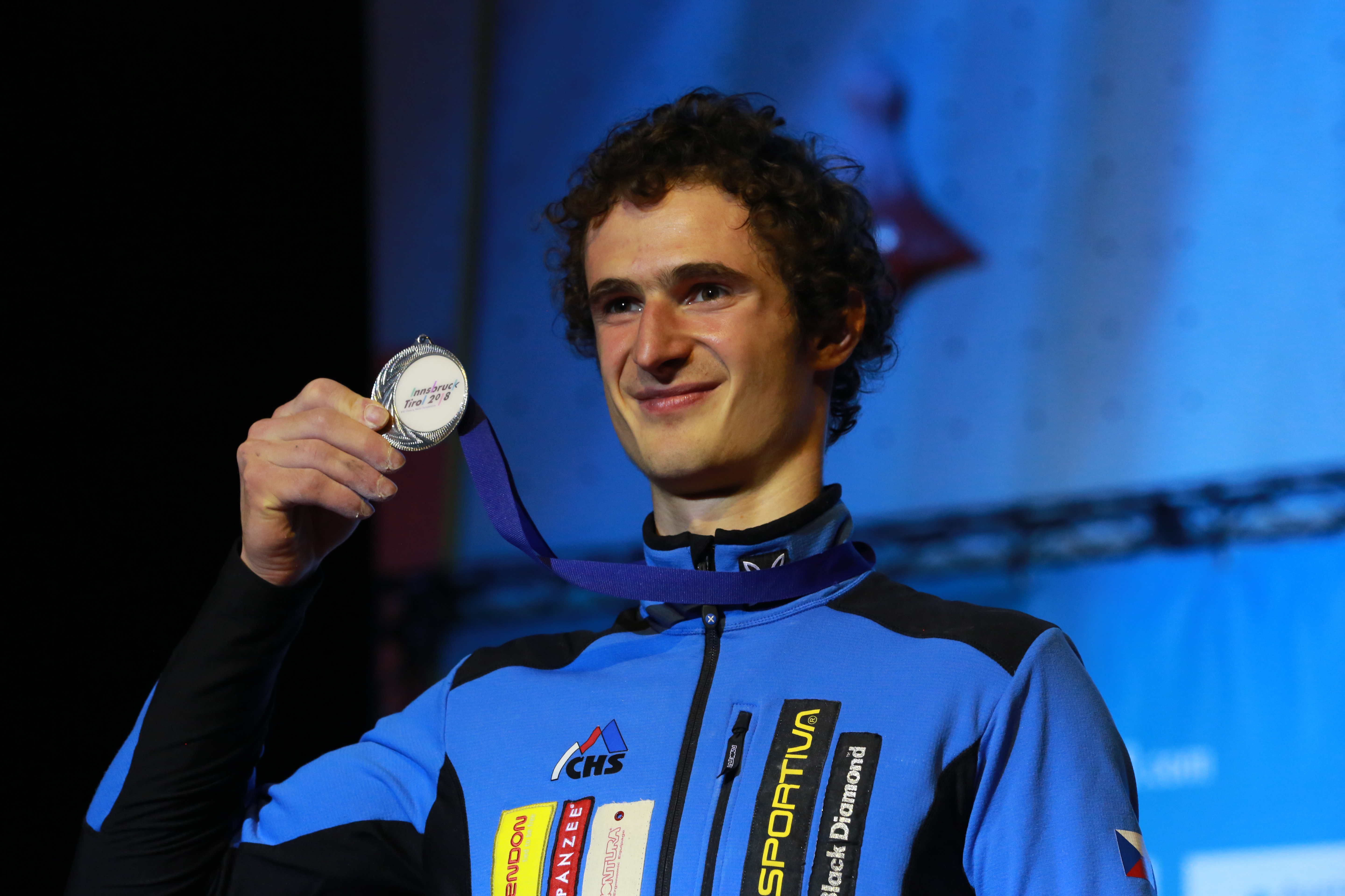 Climbing World Championships 2018 Combined Final Man winners